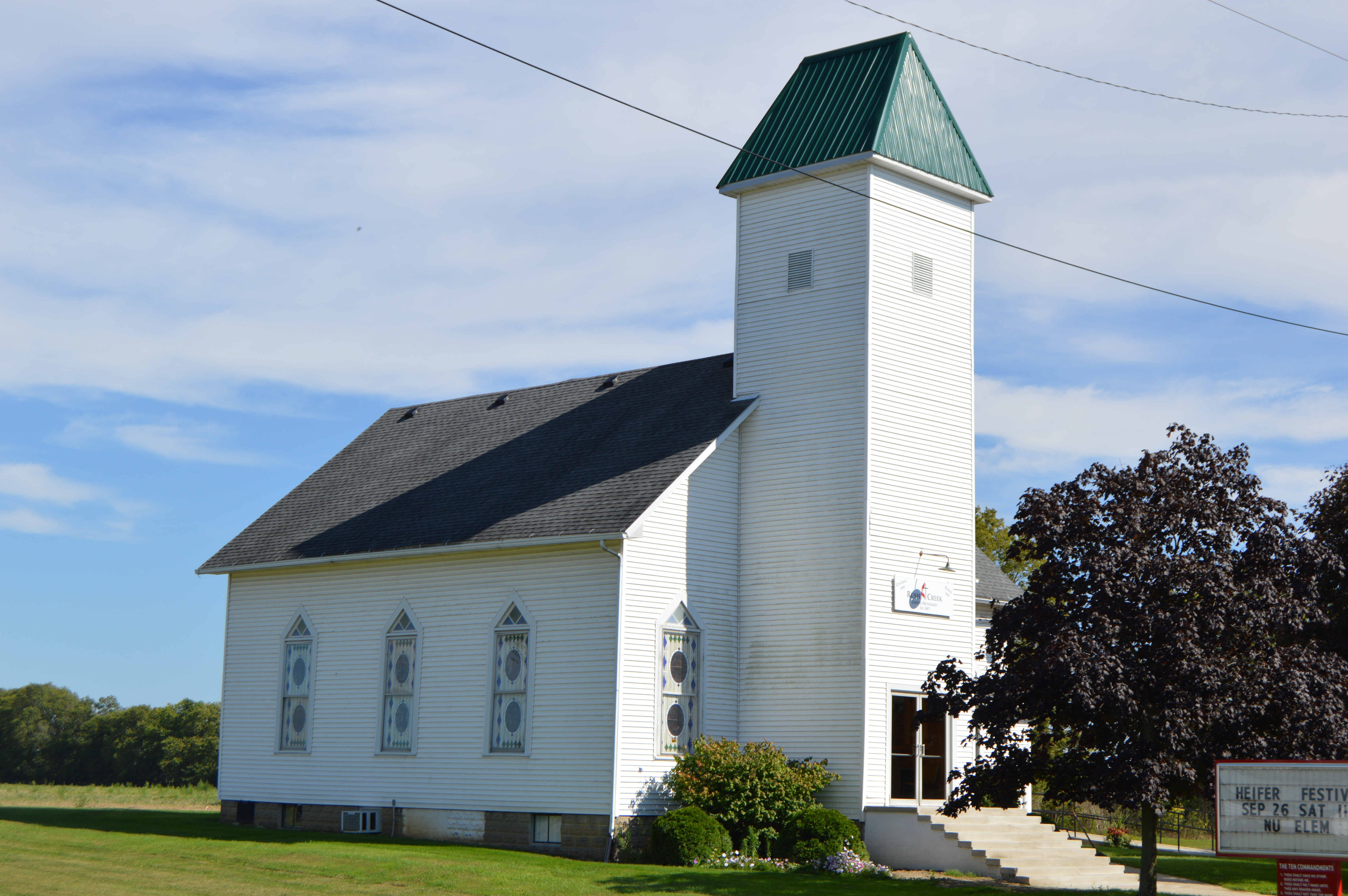 Northern side and front of the Rush Creek United Methodist Church, located at 32697 State Route 37 at Essex in Jackson Township, Union County, Ohio, United States.